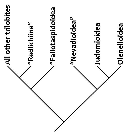 Schematic of the relations between the superfamilies within the Olenellina and with other trilobites, based on Lieberman 1998, 1999, 2001, 2002.